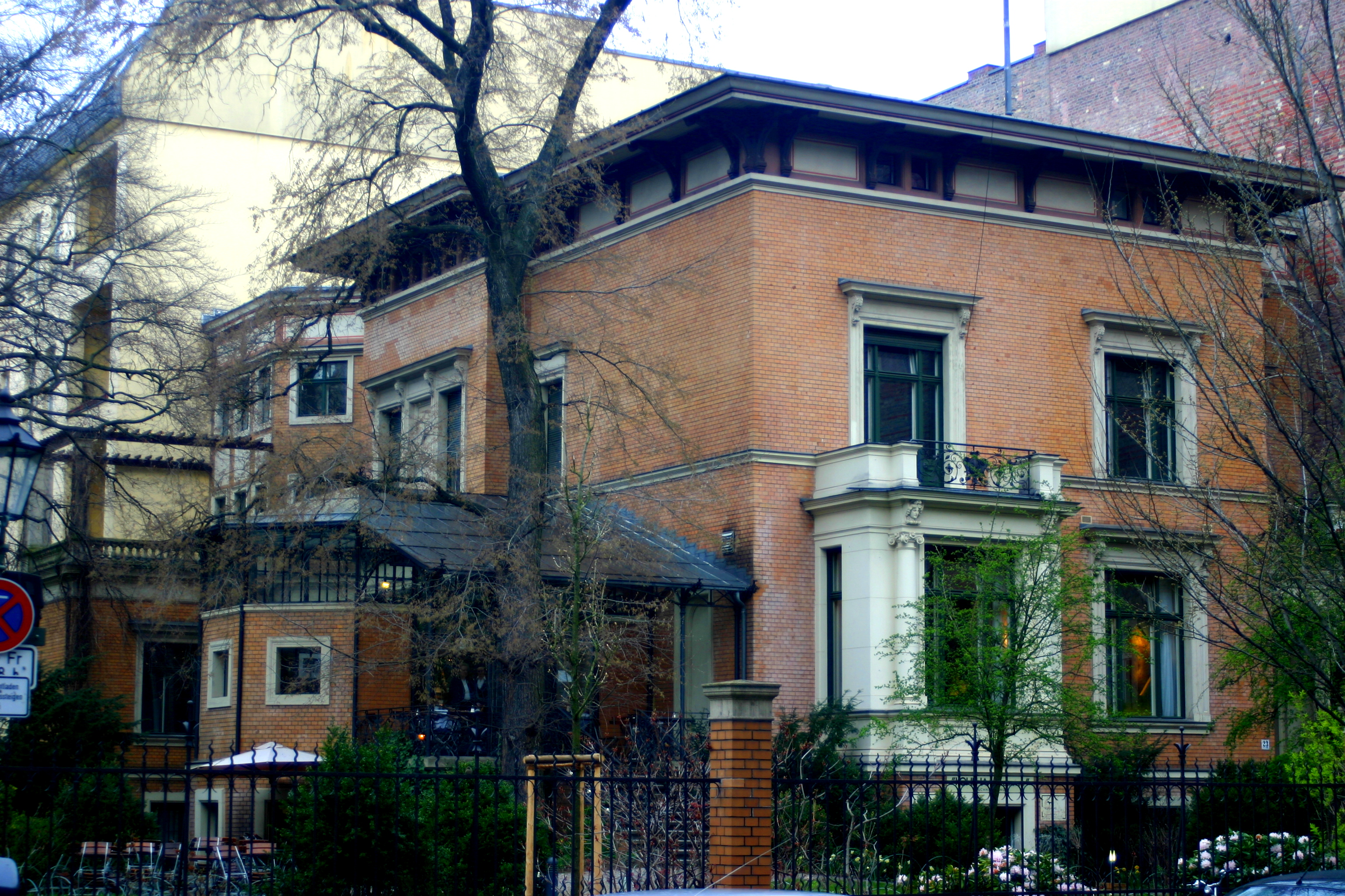 Literaturhaus, Fasanenstraße, Berlin